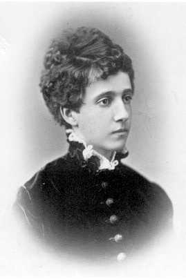 Infanta Marie Theresia de Bragança, royal princess of Portugal 1855-1944, daughter of King Michael I Portugal, 3rd wife of Archduke Karl Ludwig of Austria, photo of 1885